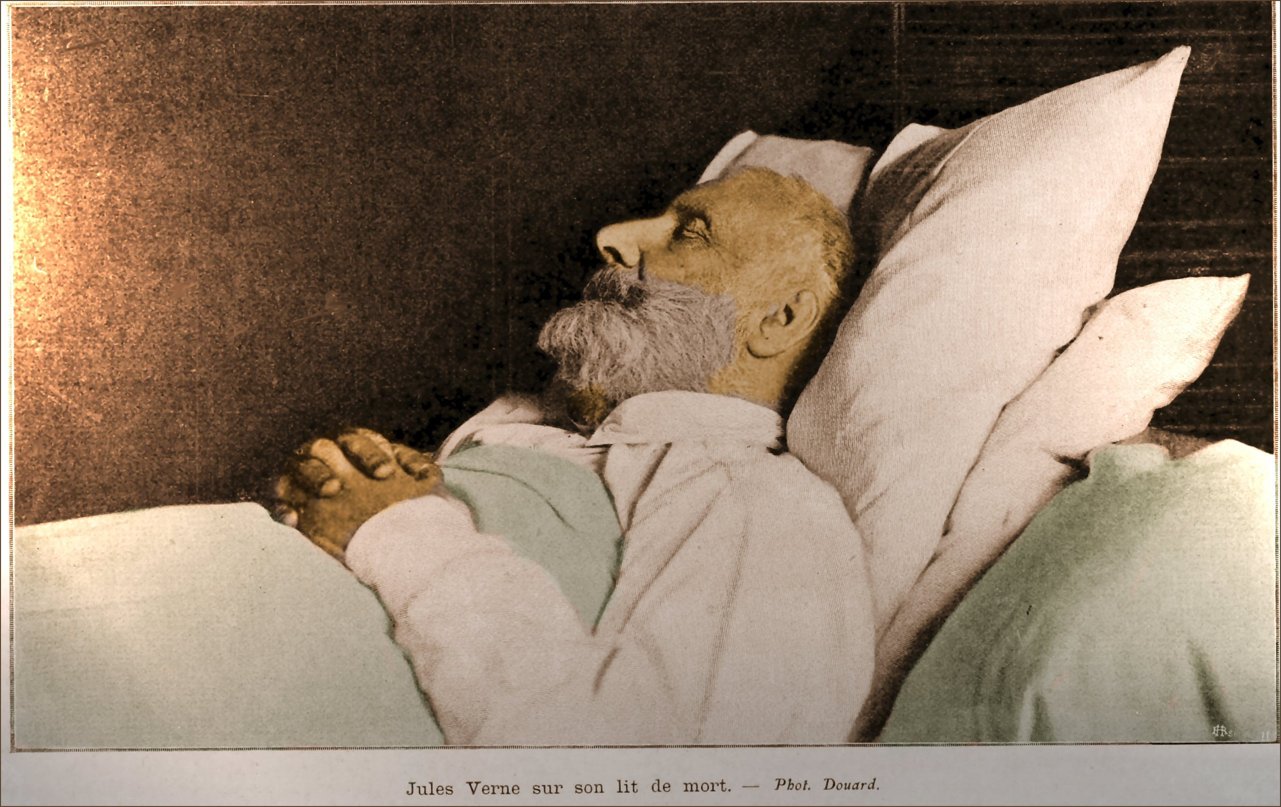 Jules Verne on his deathbed, 1905